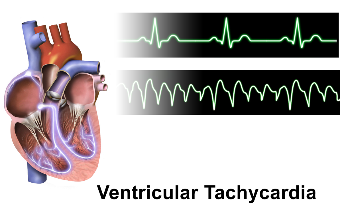 Ventricular Tachycardia. See a full animation of this medical topic.